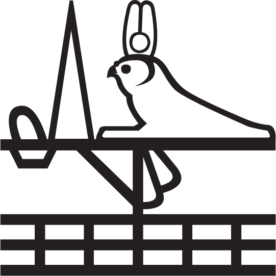 This ancient Egyptian hieroglyphic sign is the 20th nomos of Lower-Egypt. This sign was made with JSesh And then imported in The GIMP.